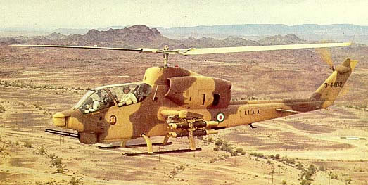 IIAF acquired 202 AH-1 SuperCobra helicopters from the USA at 1975.